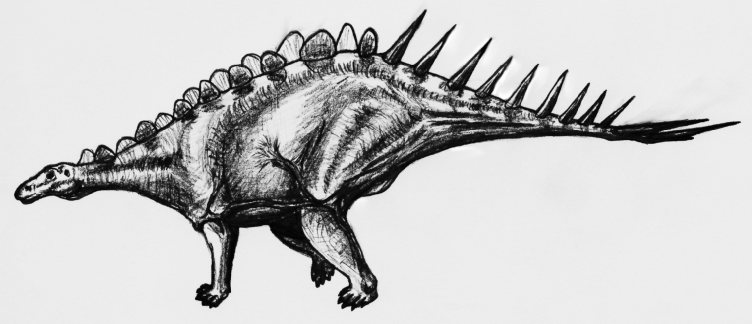 dacentrurus